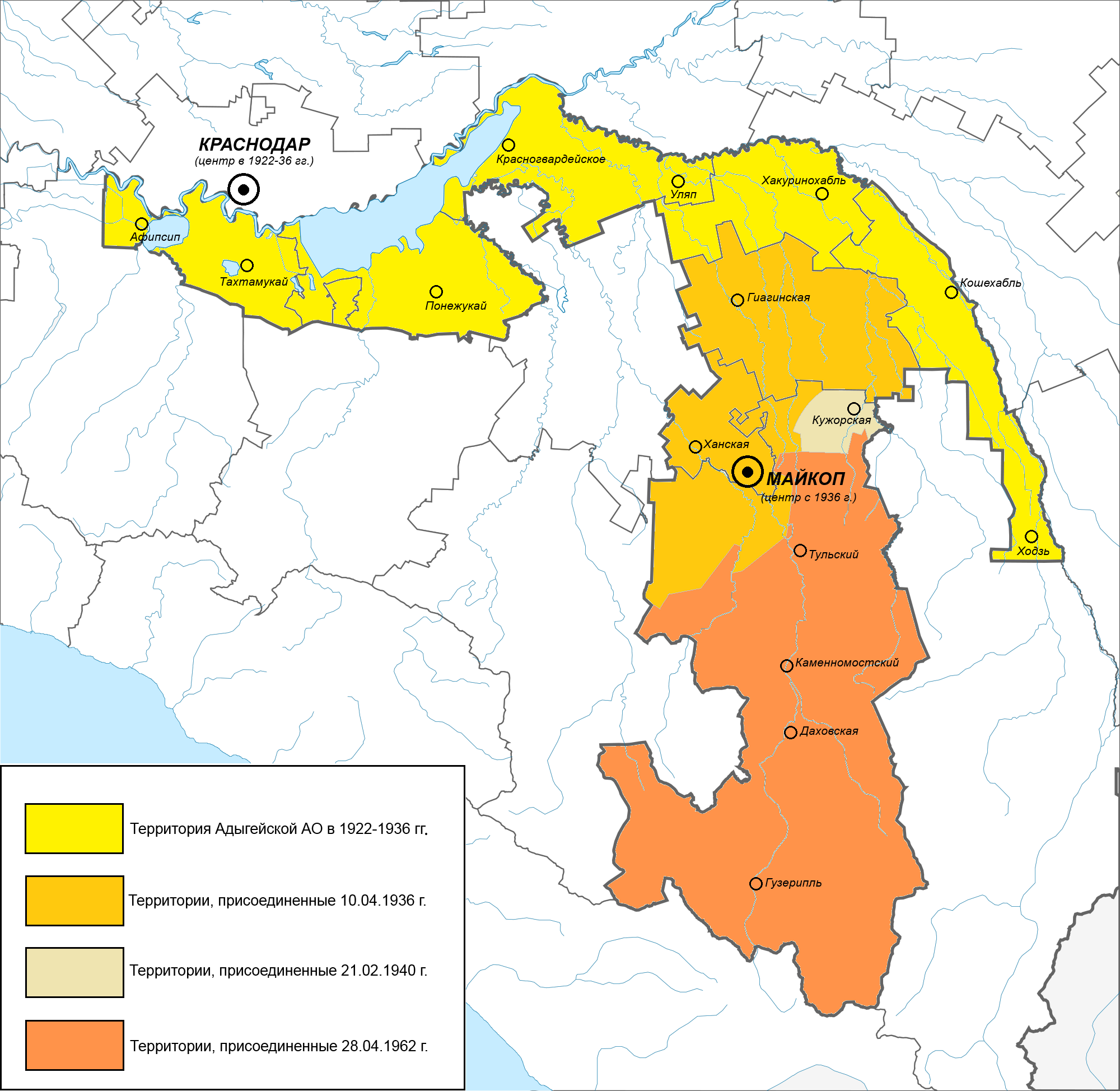 Growth of territory of Adygeya